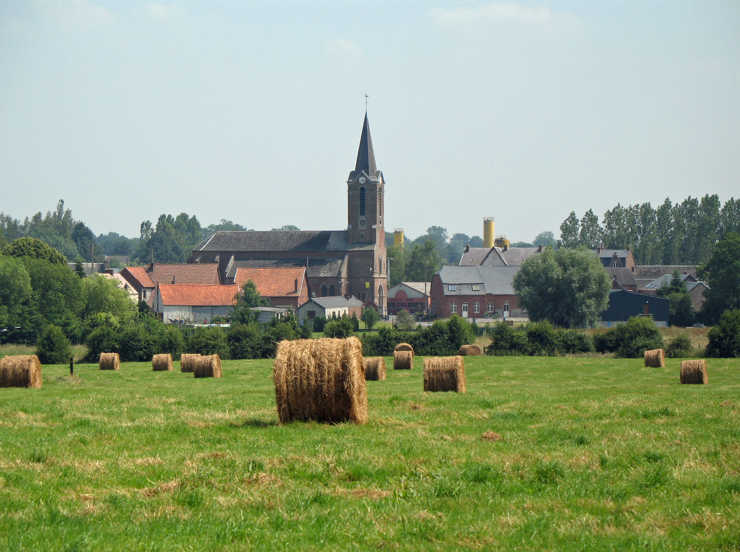 Ors (Nord department, France): general view of the village